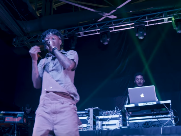 JID performing live, as shown on a video by Finish Line in June 2017